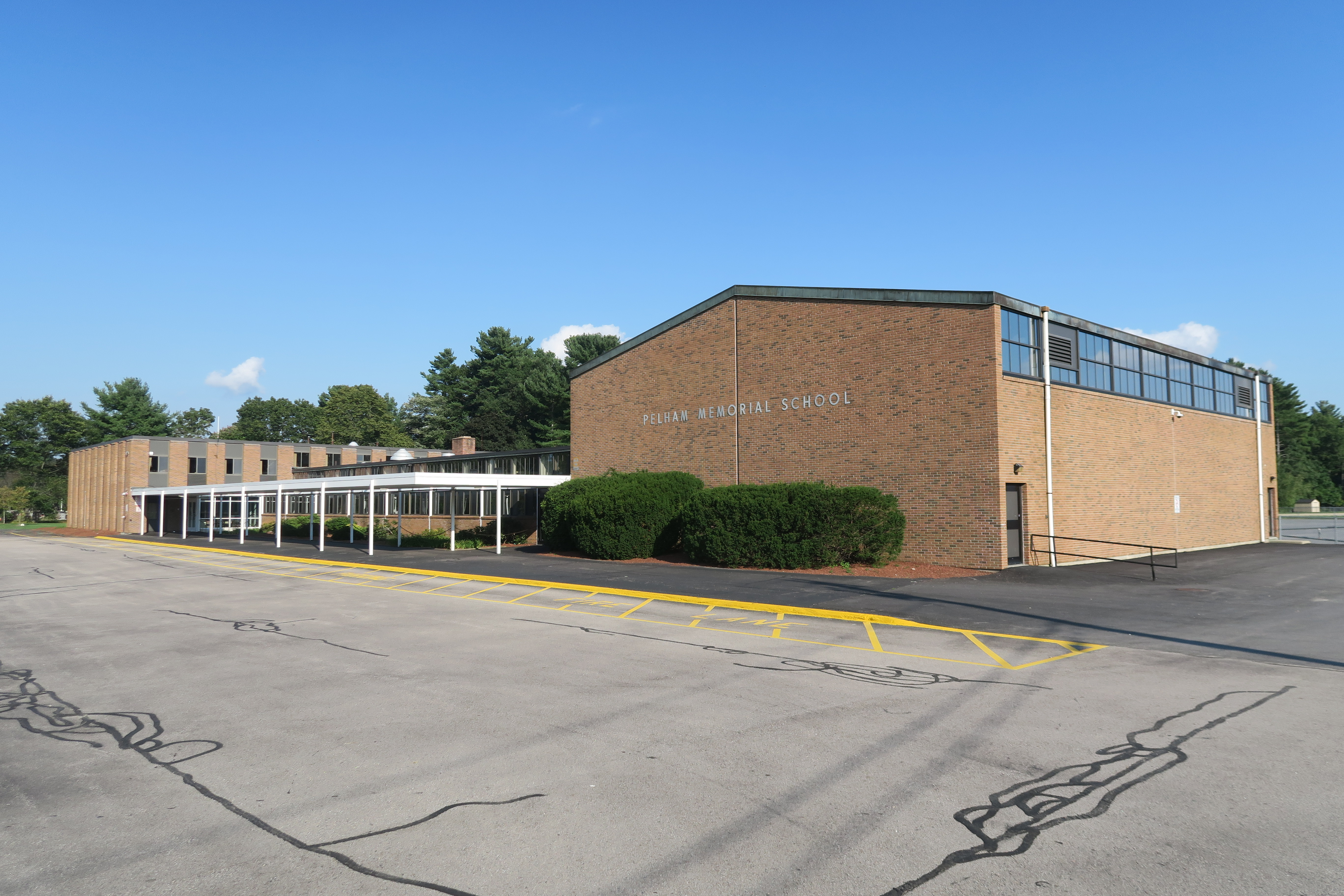 Pelham Memorial School, Pelham New Hampshire